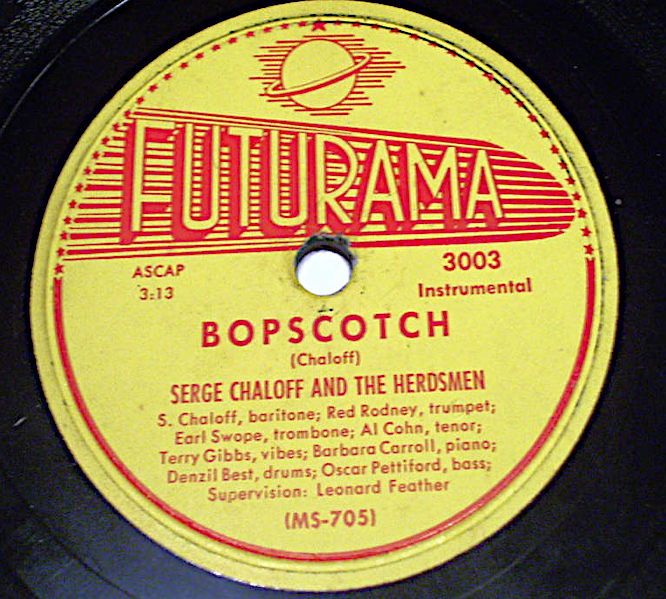 Serge chaloff and The Herdmen with Al Cohn, Earl Swope, Red Rodney, Terry Gibbs, Oscar Pettiford, Denzil Best: Bobscotch